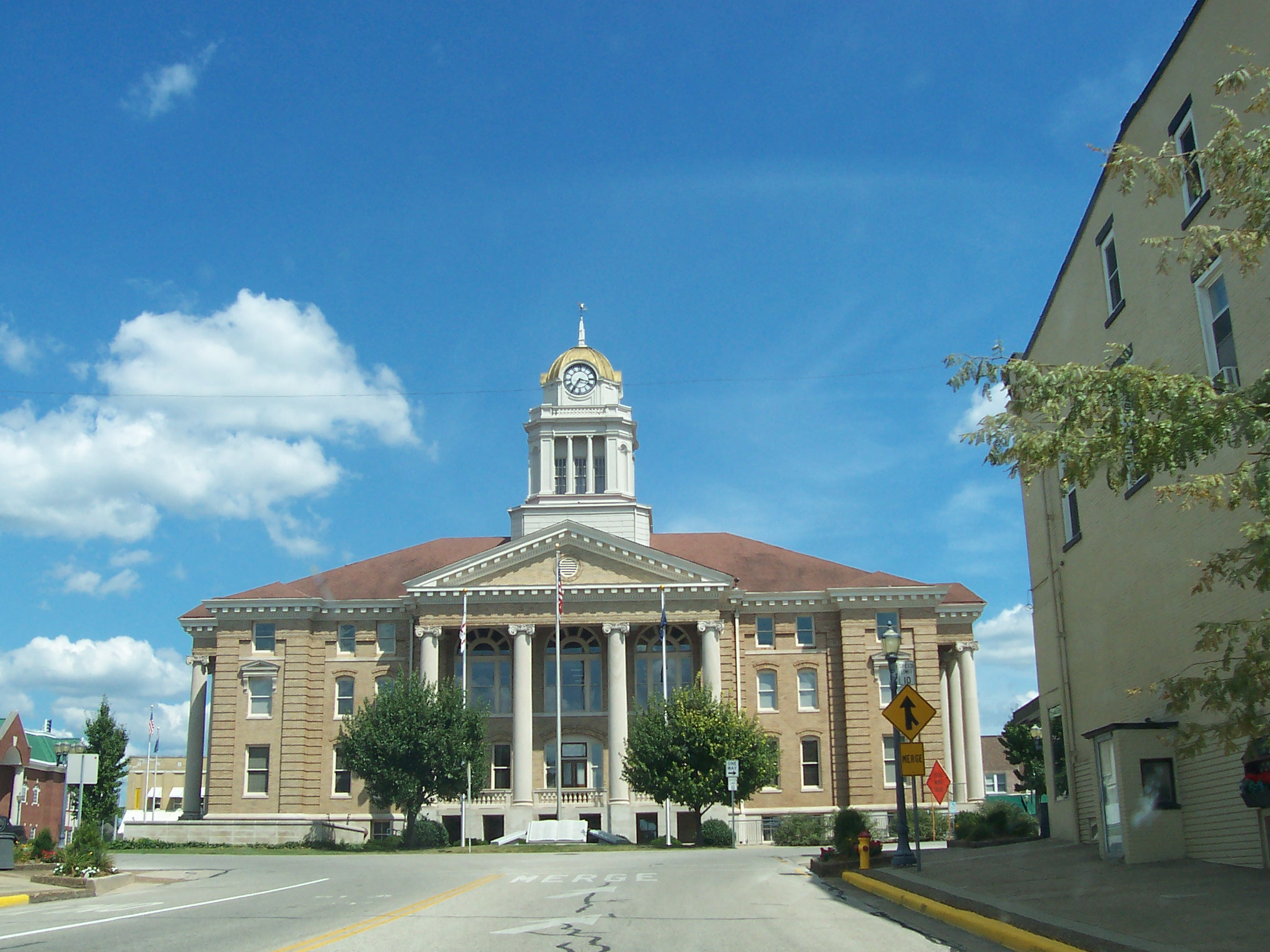 The public square in jasper, indiana with historic building